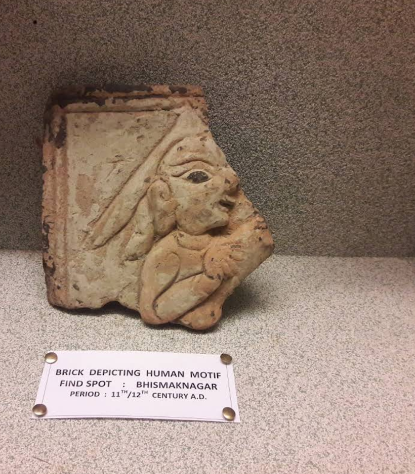 A terracotta tile of Bhismaknagar depicting a person with a hand-cannon